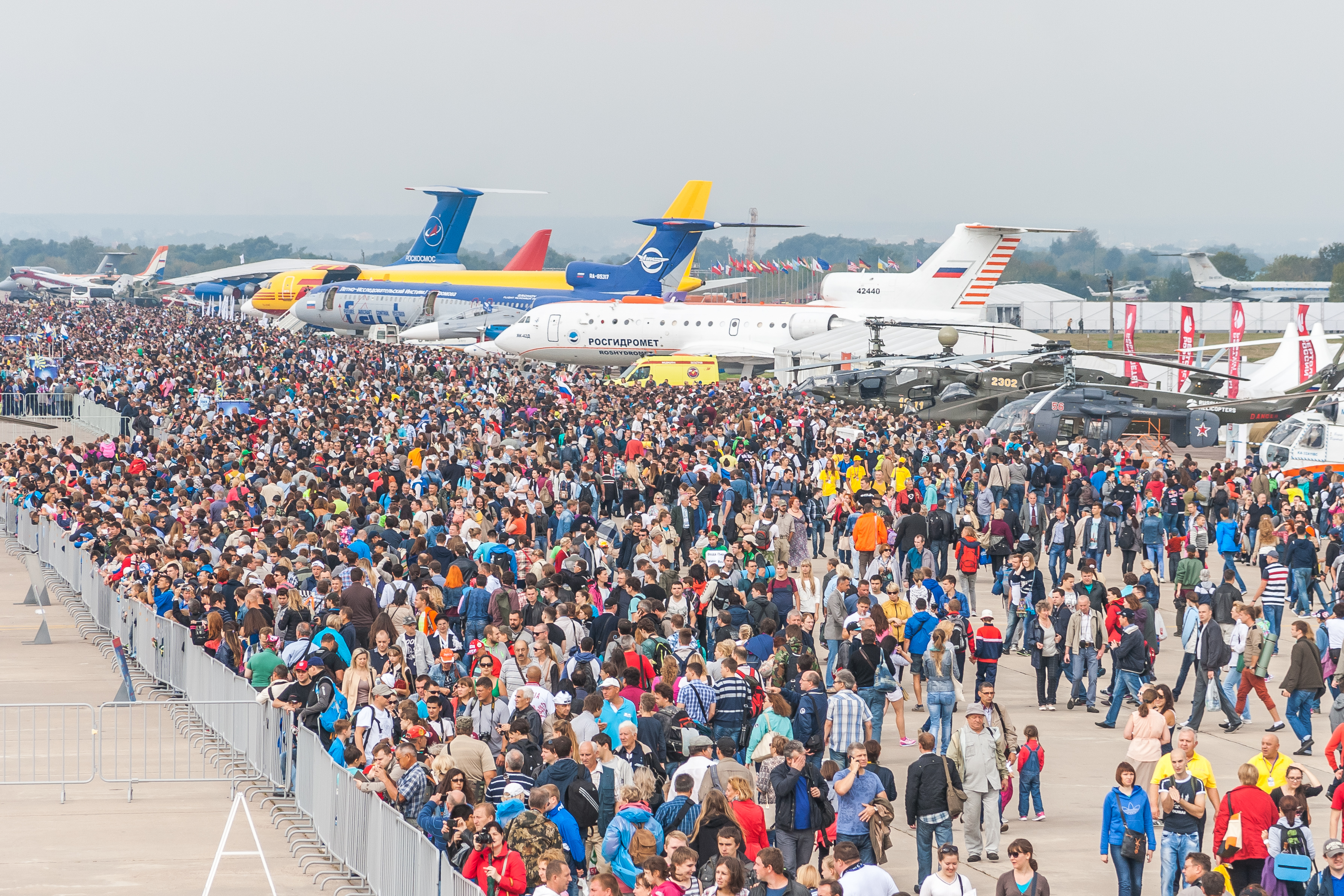 MAKS Airshow 2015